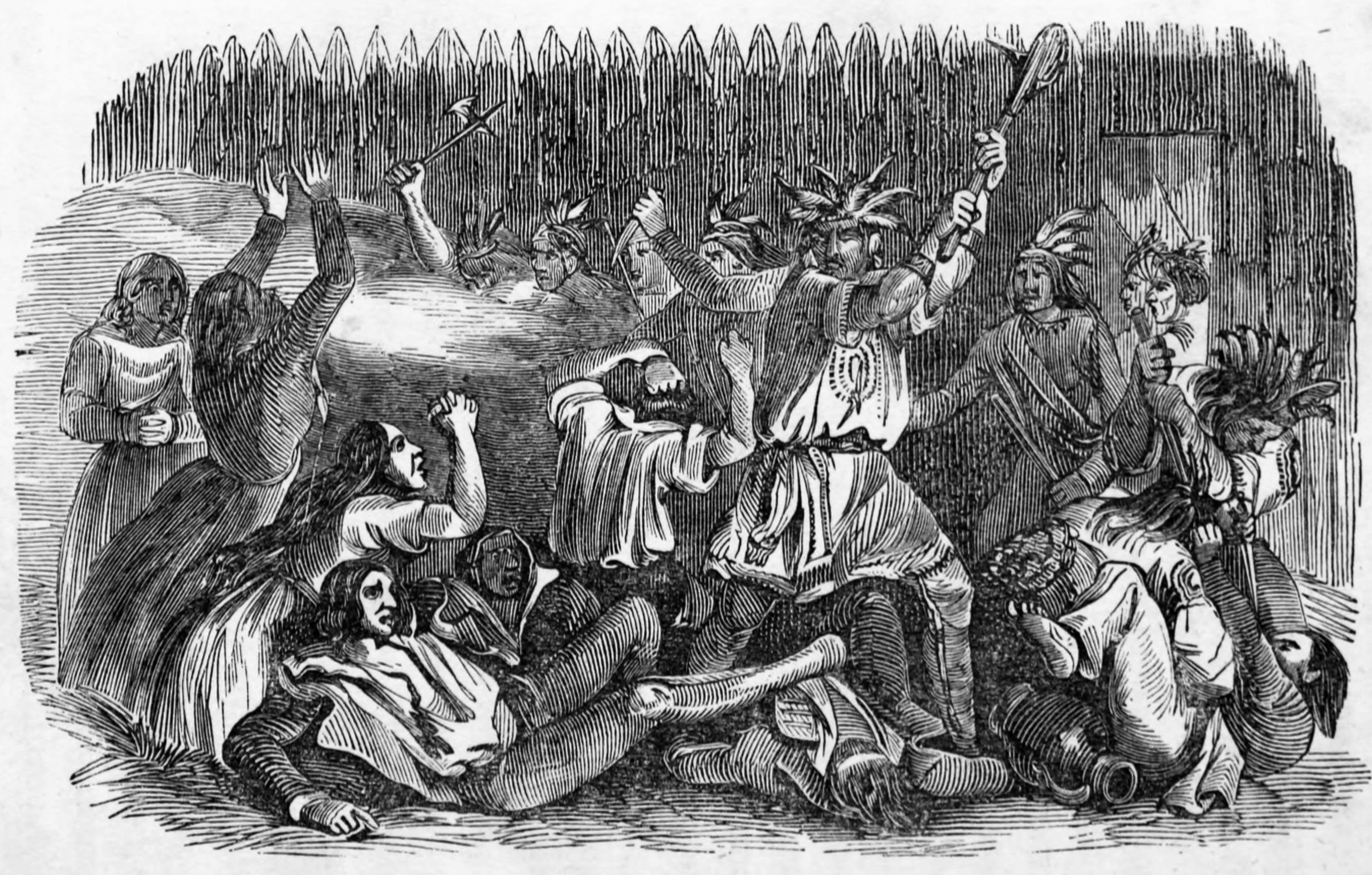 Obtained from and used with the encouragement of the Fort Mims Restoration Association (new url: ). Used in lieu of Start of the Creek War 001 002 2.16.jpg Hello Vern, I happened upon the Wikipedia page about Fort Mims and I saw you had an older graphic that I had used on the FMRA Web page. The one that's there now is more appropriate and is the one I obtained from Brien McWilliams. Fell free to use it if you desire. Regards, Jerry Sherrell Fort Mims Restoration Association Webmaster